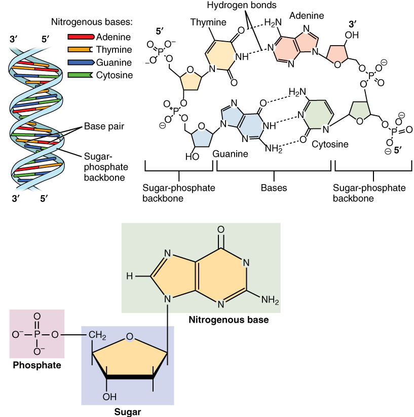 Version 8.25 from the Textbook OpenStax Anatomy and Physiology Published May 18, 2016